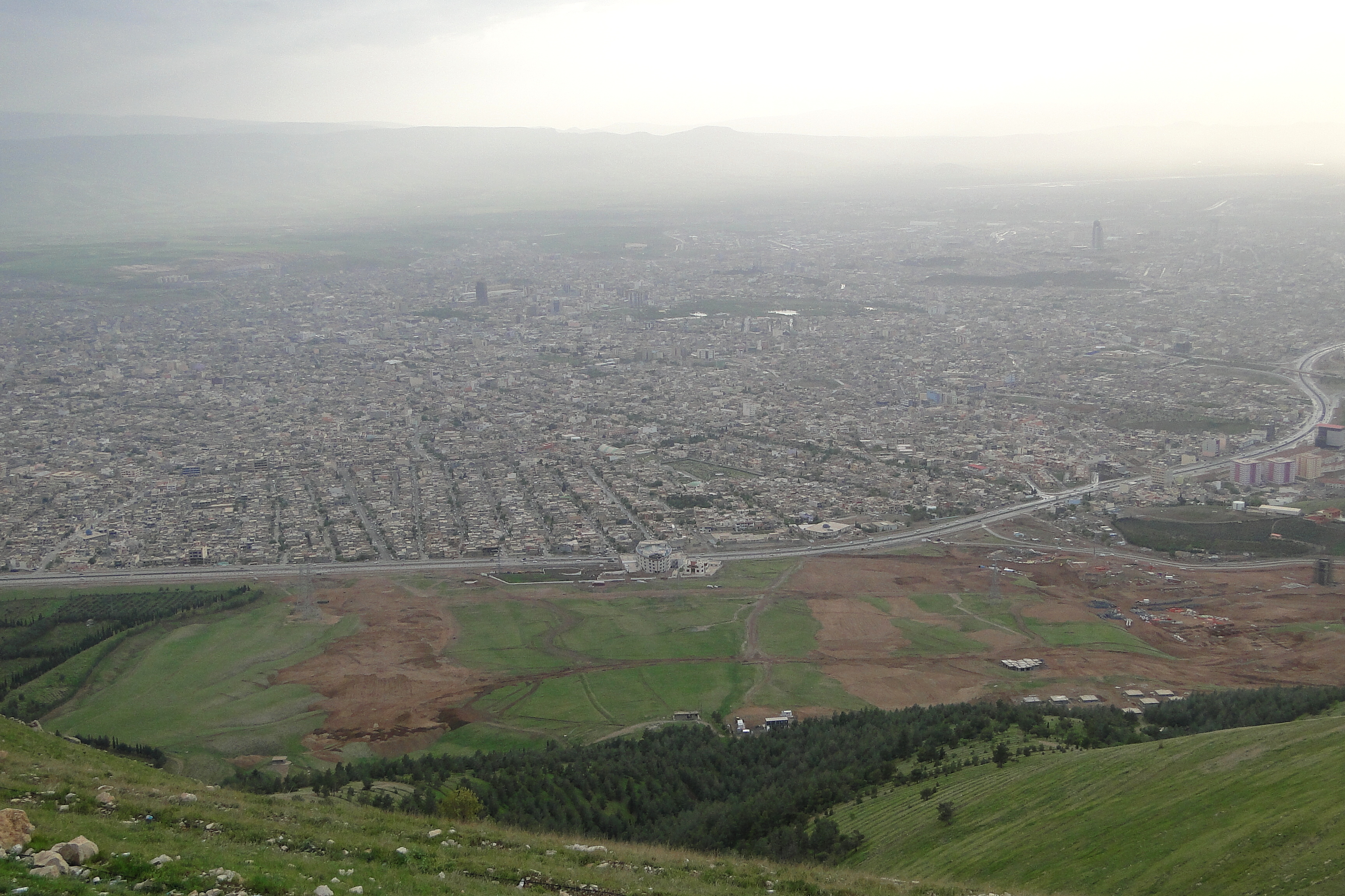 View over Sulaimani-Suleimaniya - Kurdistan - Iraq - 01